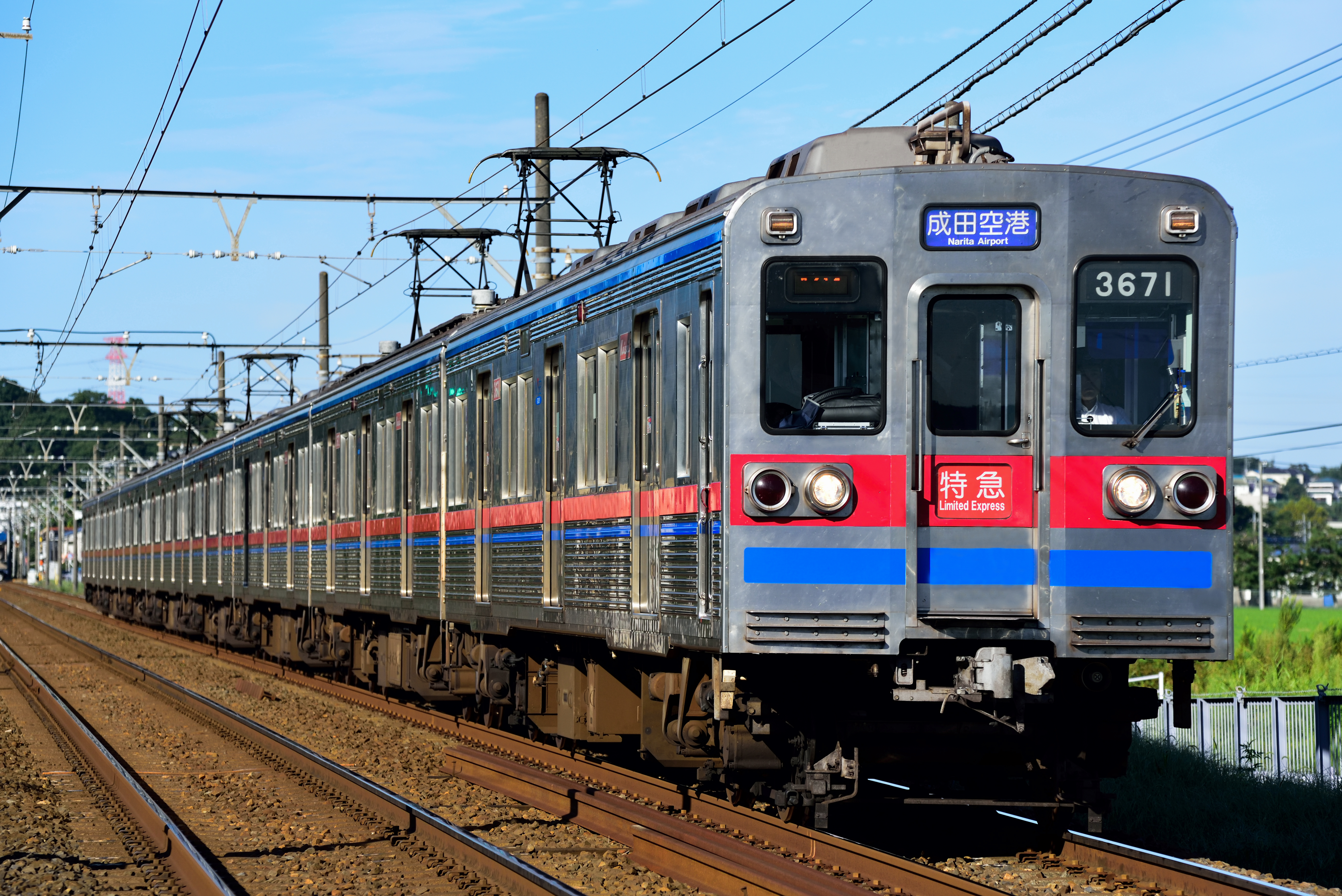 Keisei Electric Railway 3600 series 8-car EMU set 3678 between Keisei-Usui and Keisei-Sakura stations on the Keisei Main Line in Chiba Prefecture, Japan